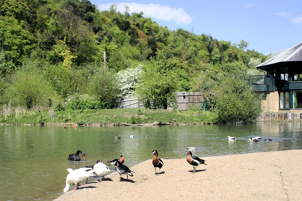 View of lake at Arundel WWT (Wildfowl and Wetland Trust), West Sussex, England, including partial view of the visitor centre and assorted captive wildfowl